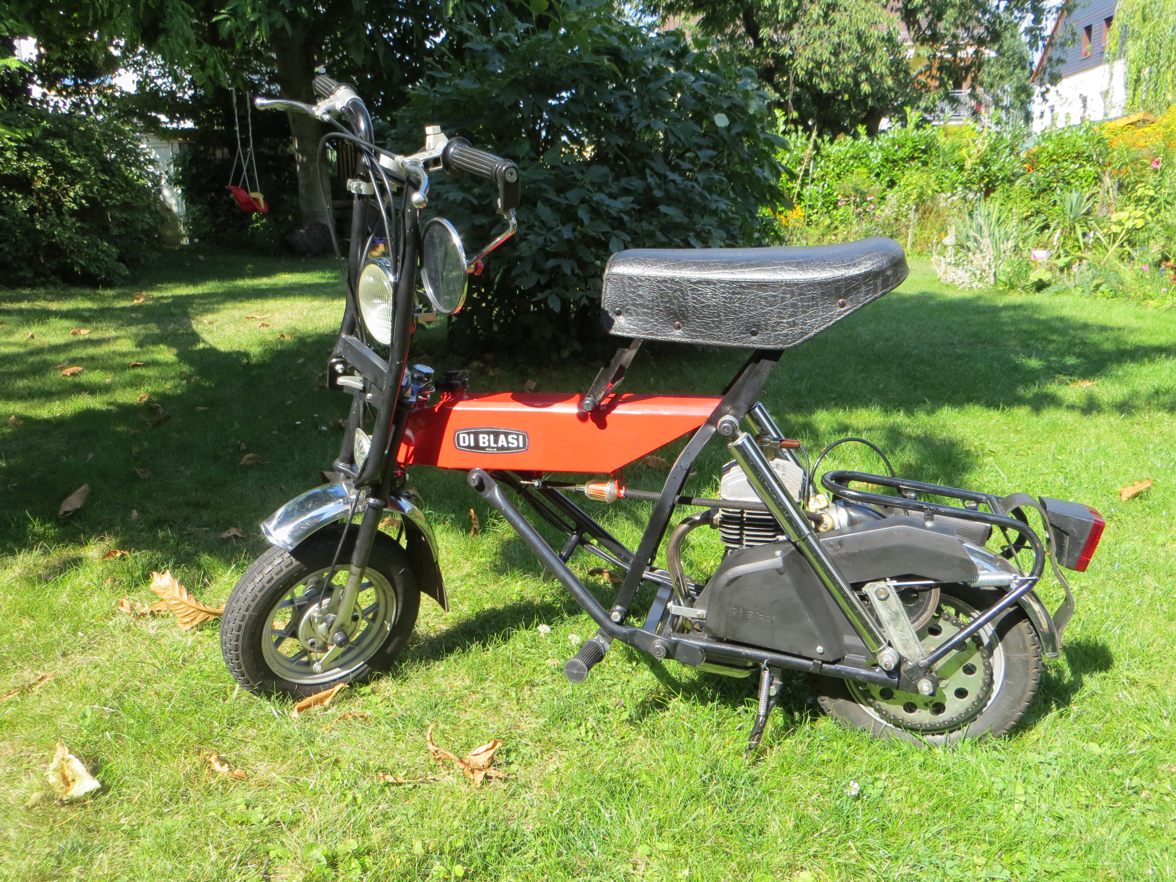 Di Blasis foldabable Motorcycle Type R7 from 1982